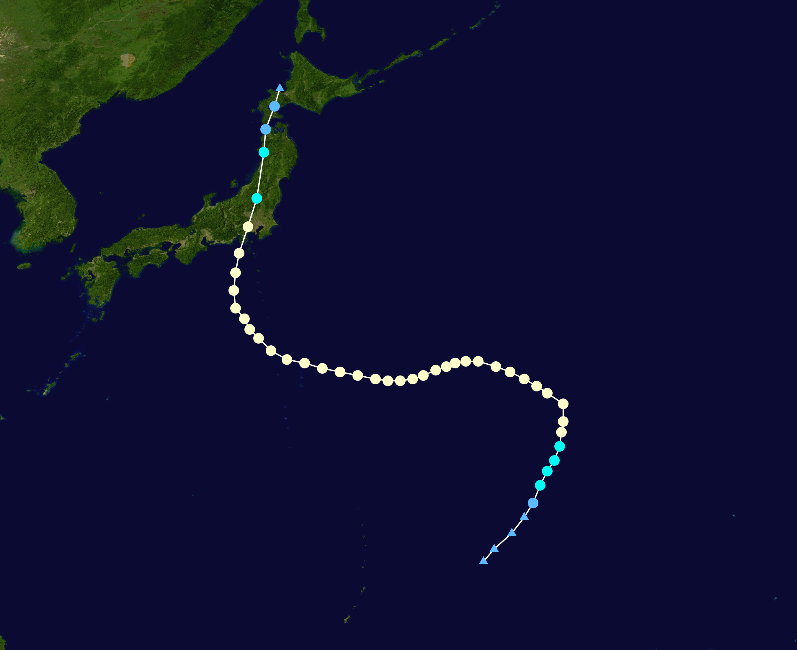 Track map of Typhoon Fitow of the 2007 Pacific typhoon season. The points show the location of the storm at 6-hour intervals. The colour represents the storm's maximum sustained wind speeds as classified in the Saffir–Simpson scale (see below), and the shape of the data points represent the nature of the storm, according to the legend below. Saffir–Simpson scale Tropical depression≤38 mph≤62 km/h Category 3111–129 mph178–208 km/h Tropical storm39–73 mph63–118 km/h Category 4130–156 mph209–251 km/h Category 174–95 mph119–153 km/h Category 5≥157 mph≥252 km/h Category 296–110 mph154–177 km/h Unknown Storm type Tropical cyclone Subtropical cyclone Extratropical cyclone / Remnant low / Tropical disturbance / Monsoon depression